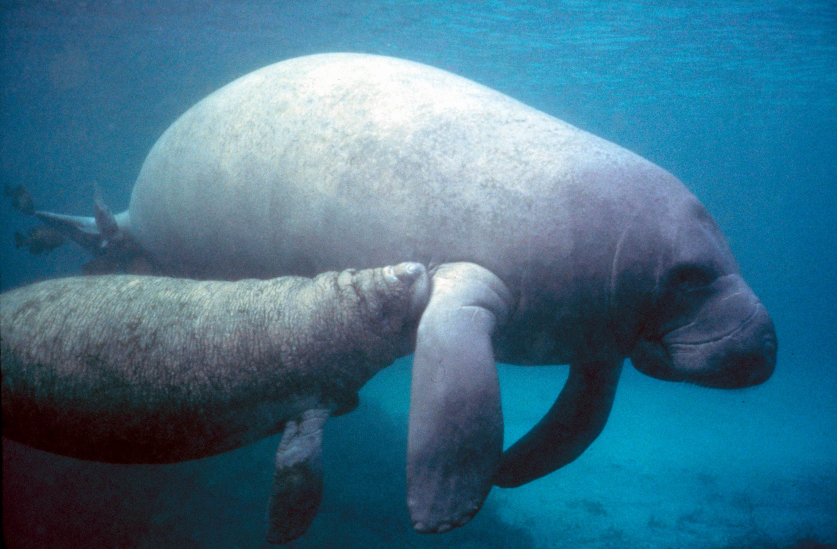 A manatee and her calf. West Indian Manatee, an endangered aquatic mammal of Puerto Rico.